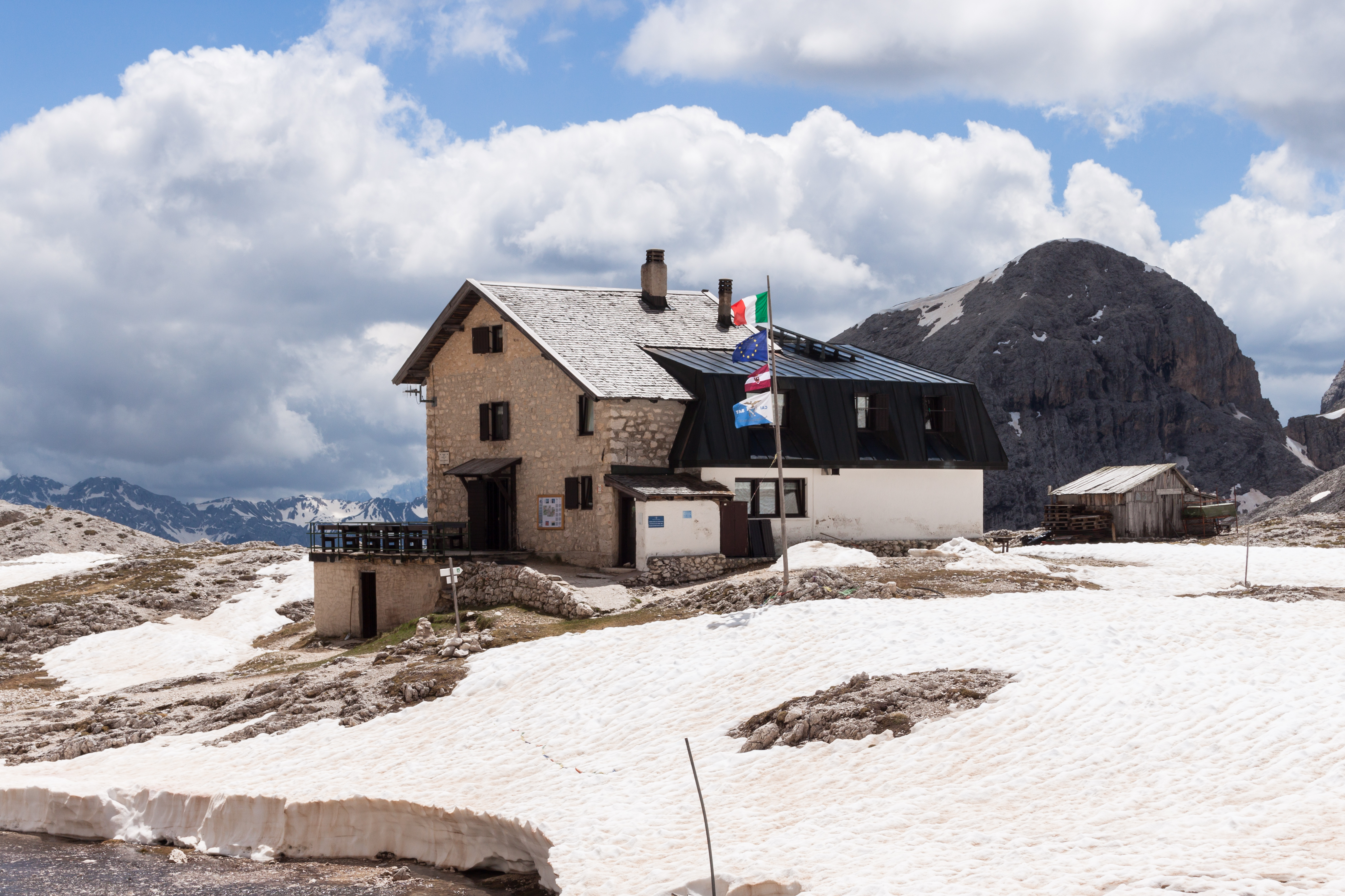 Antermoia refuge as seen from west.